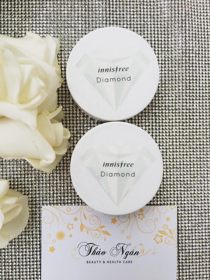 kem phấn mỹ phẩm